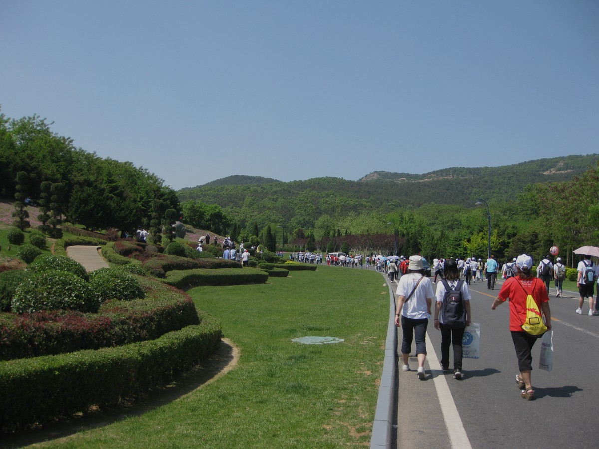 A glipmse of Dalian International Walking in 2009